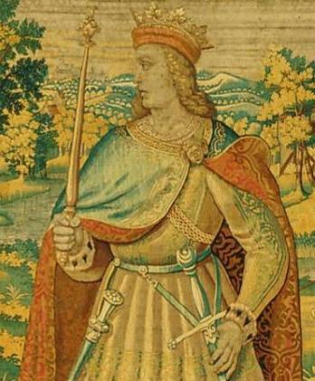 King Olaf II of Denmark, Olaf IV of Norway